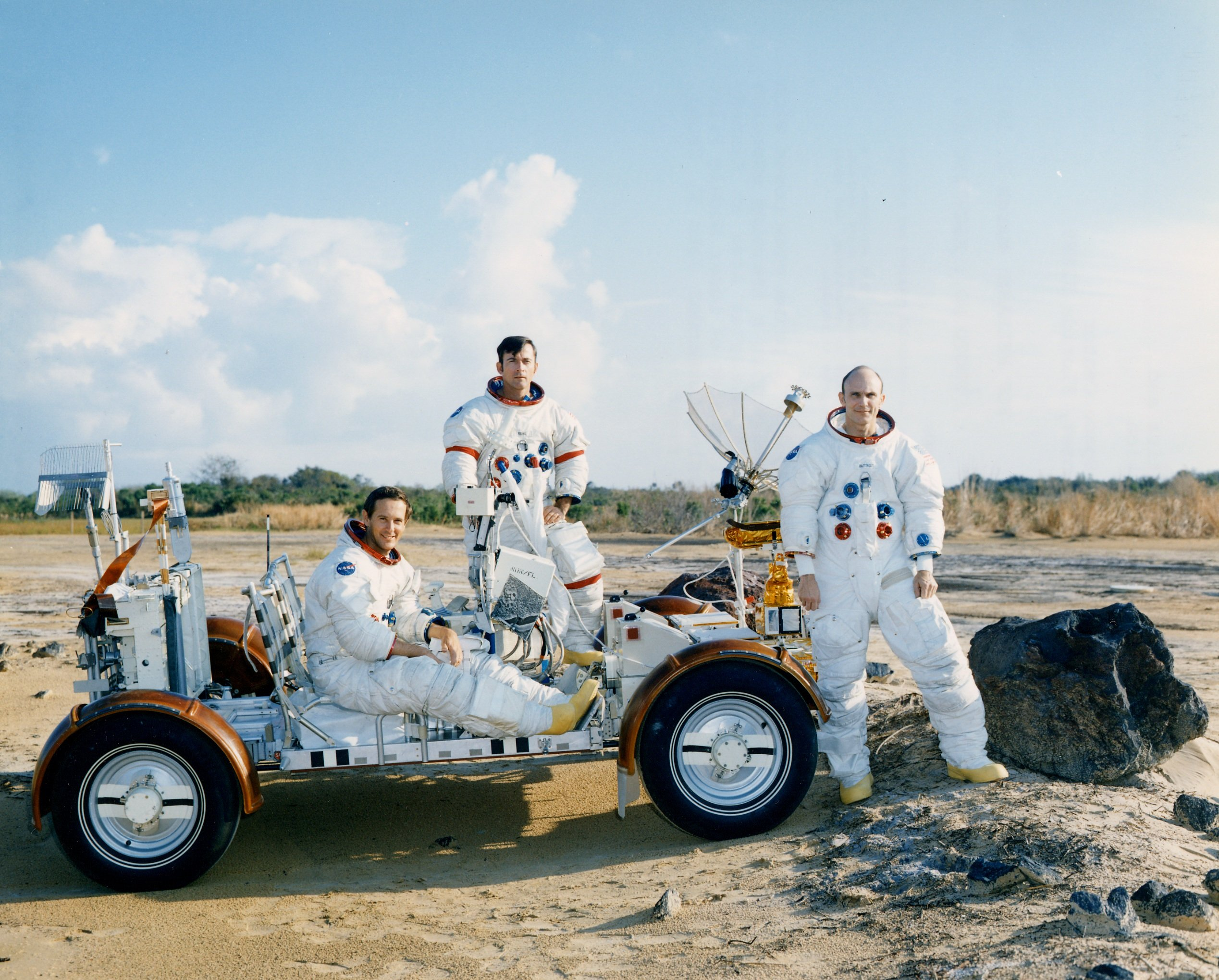 Charlie Duke (left), John Young, and Ken Mattingly pose with a training version of the lunar roving vehicle in a field at the Kennedy Space Center simulated to represent the lunar surface.